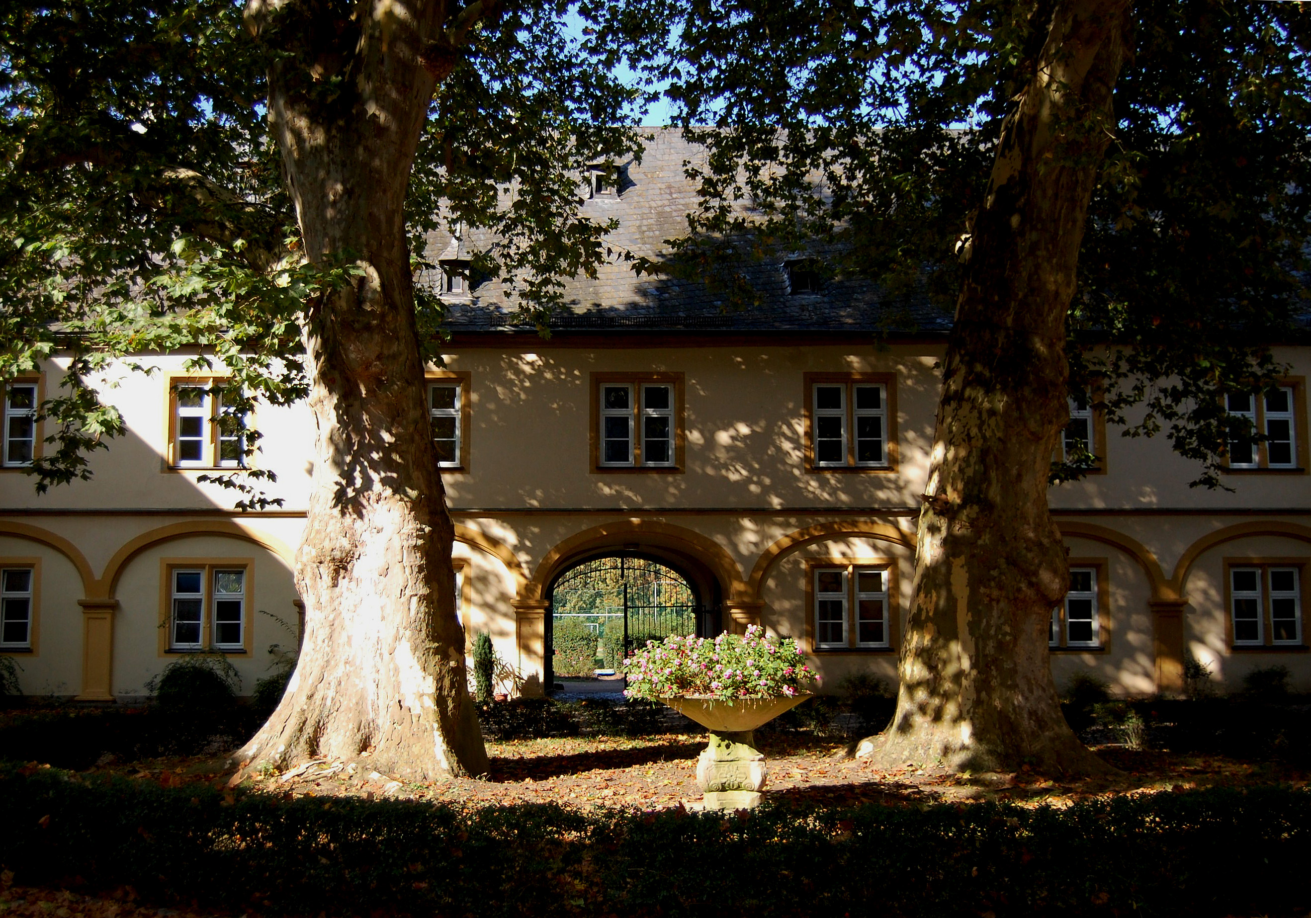 Castle in Volkach-Gaibach near Kitzingen (Germany)